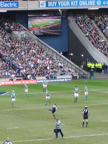 Prise le 18 septembre 2007 Rugby World Cup 2007 - Scotland v Romania